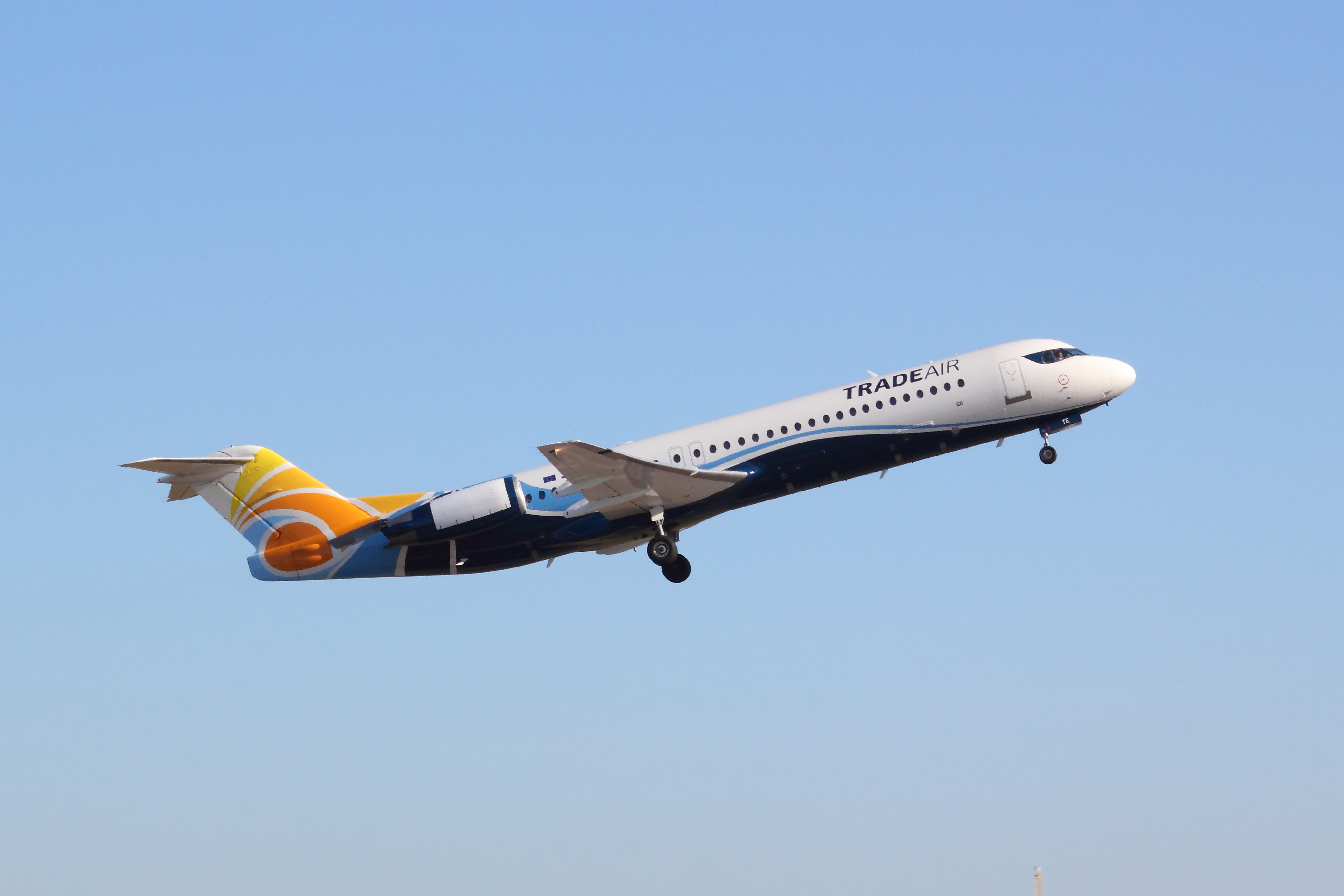 Trade Air Fokker 100 9A-BTE Helsinki-Vantaa (HEL/EFHK) flight C3312 HEL-LPI departure rwy 22R